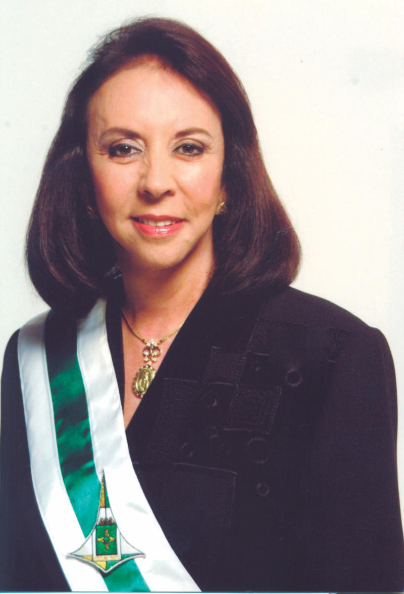 This photograph was scanned from a printed version of the private archives of Maria de Lourdes Abadia.